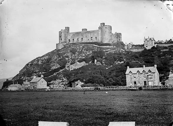 1 negative : glass, wet collodion, b&w ; 12 x 16.5 cm.